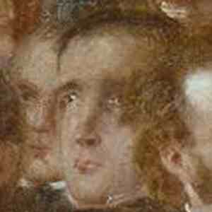 Elon Galusha was a baptist preacher. Here he is at the back of the British and Foreign Anti-Slavery Society in 1840. Note this is an extract from a much larger painting.